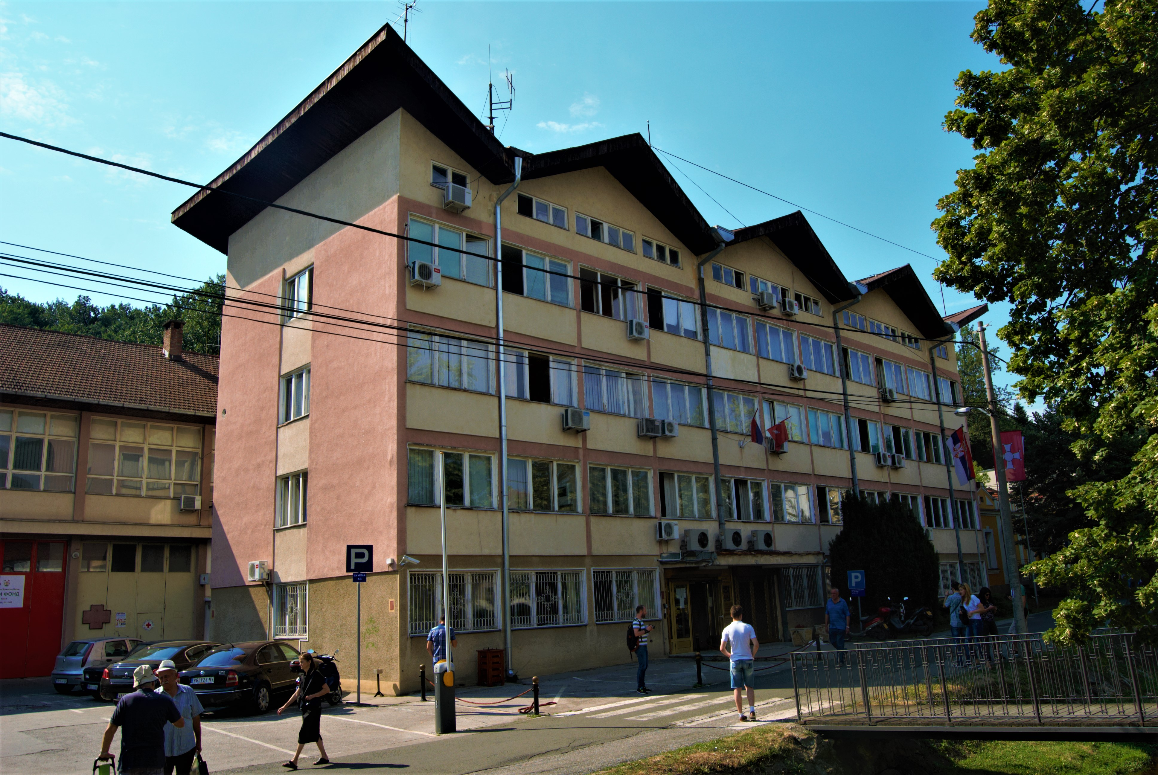 The municipal building in Vrnjačka Banja. Srpski (latinica): Zgrada opštine Vrnjačke Banje.